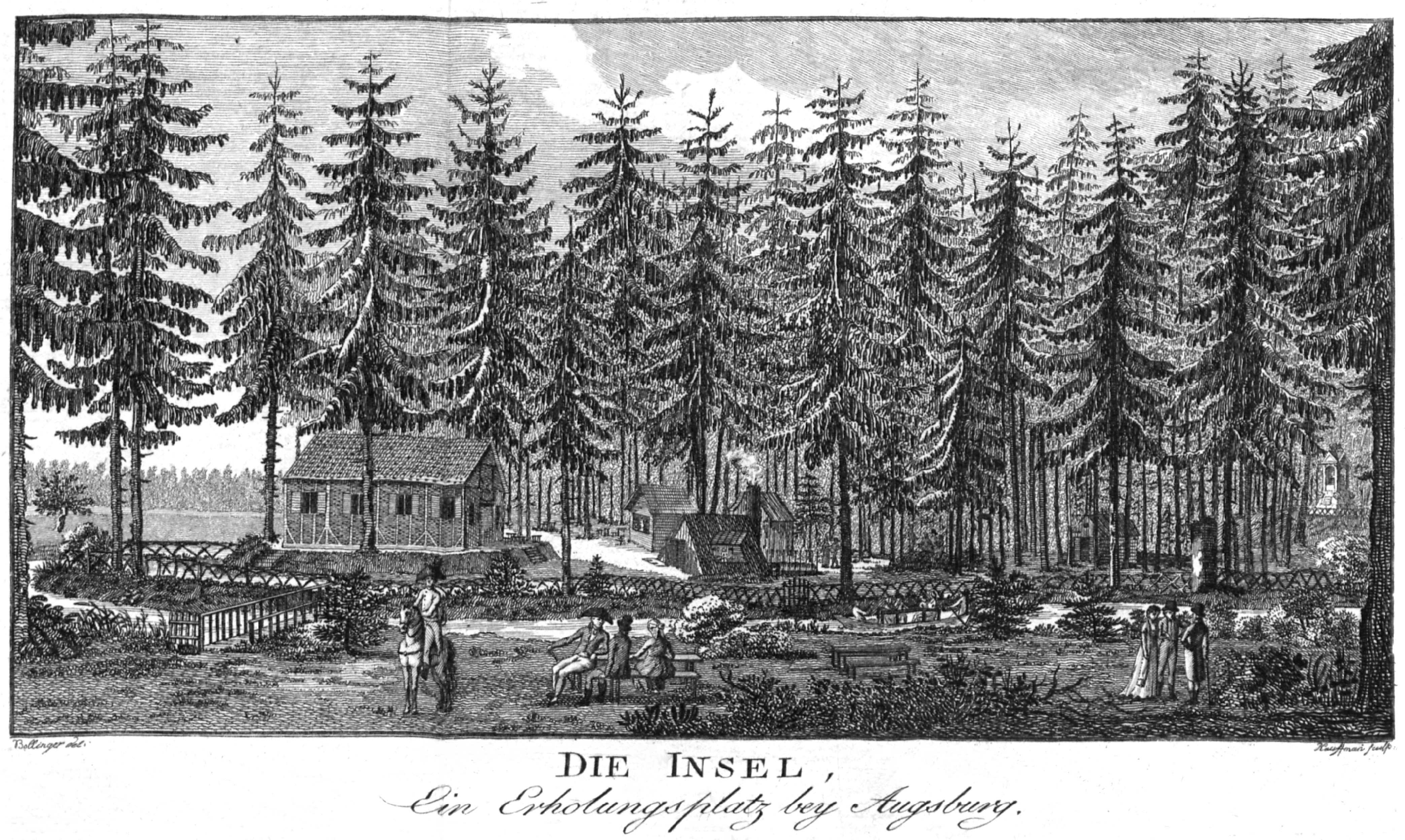 Source: Appendix to "Klio und Euterpe: ein Taschenbuch auf das Jahr 1804", Staats- u. Stadtbibliothek Augsburg